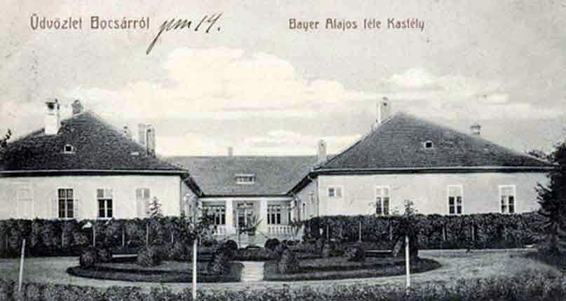 Castle of Alajos Bayer in Bočar (1914)